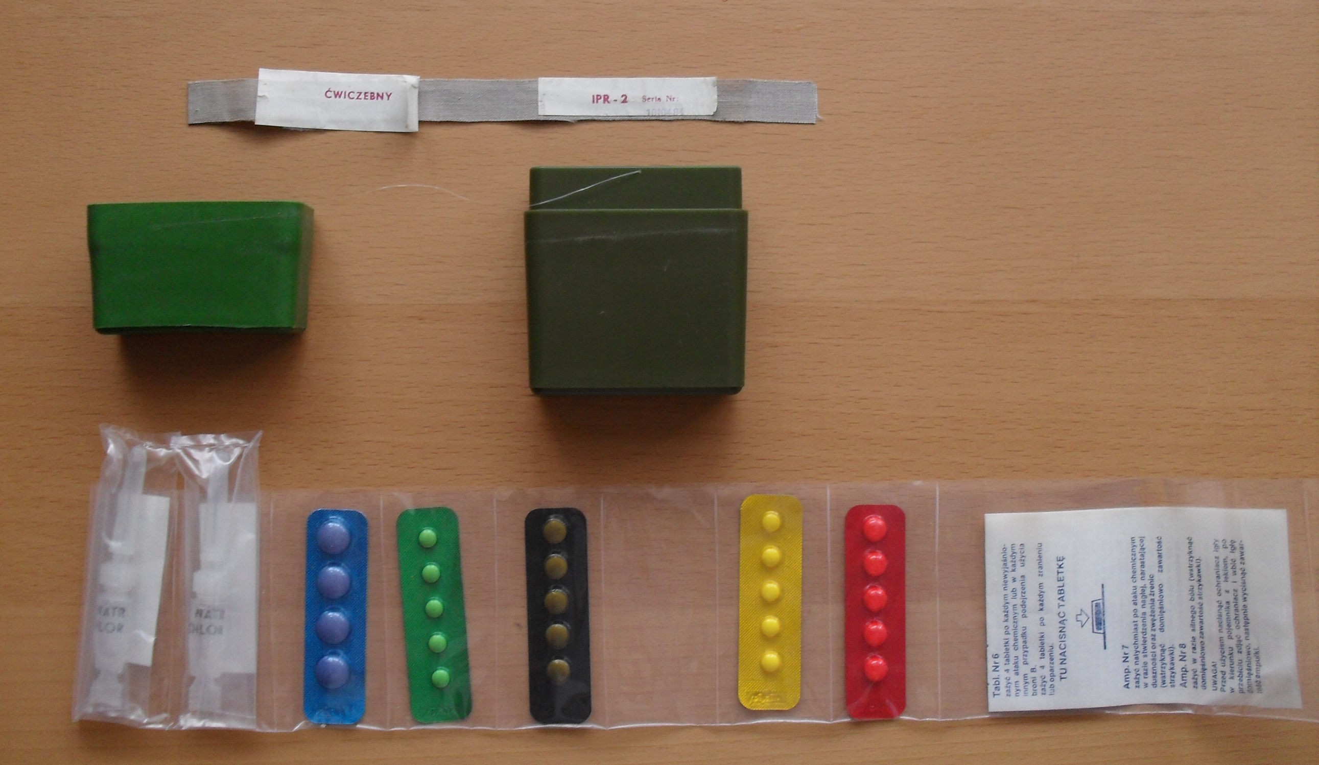 IPR inside (trening kit)